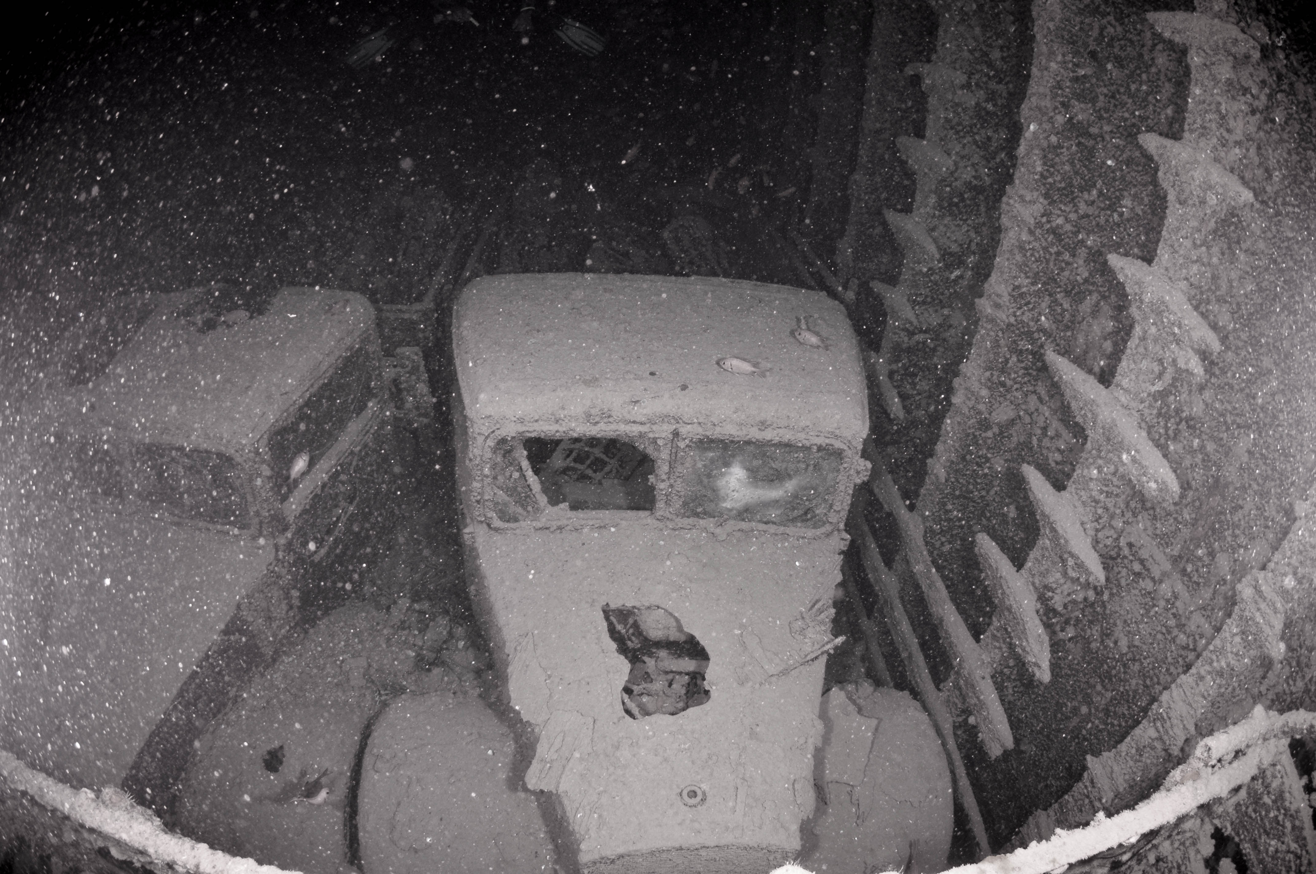 thistlegorm truck